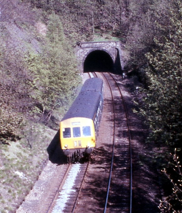 View of Train exiting Thurstonland Tunnel at Brockholes, Huddersfield in 1978